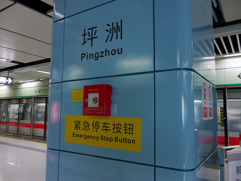 Shenzhen Metro Station - Luobao Line - Pingzhou Station